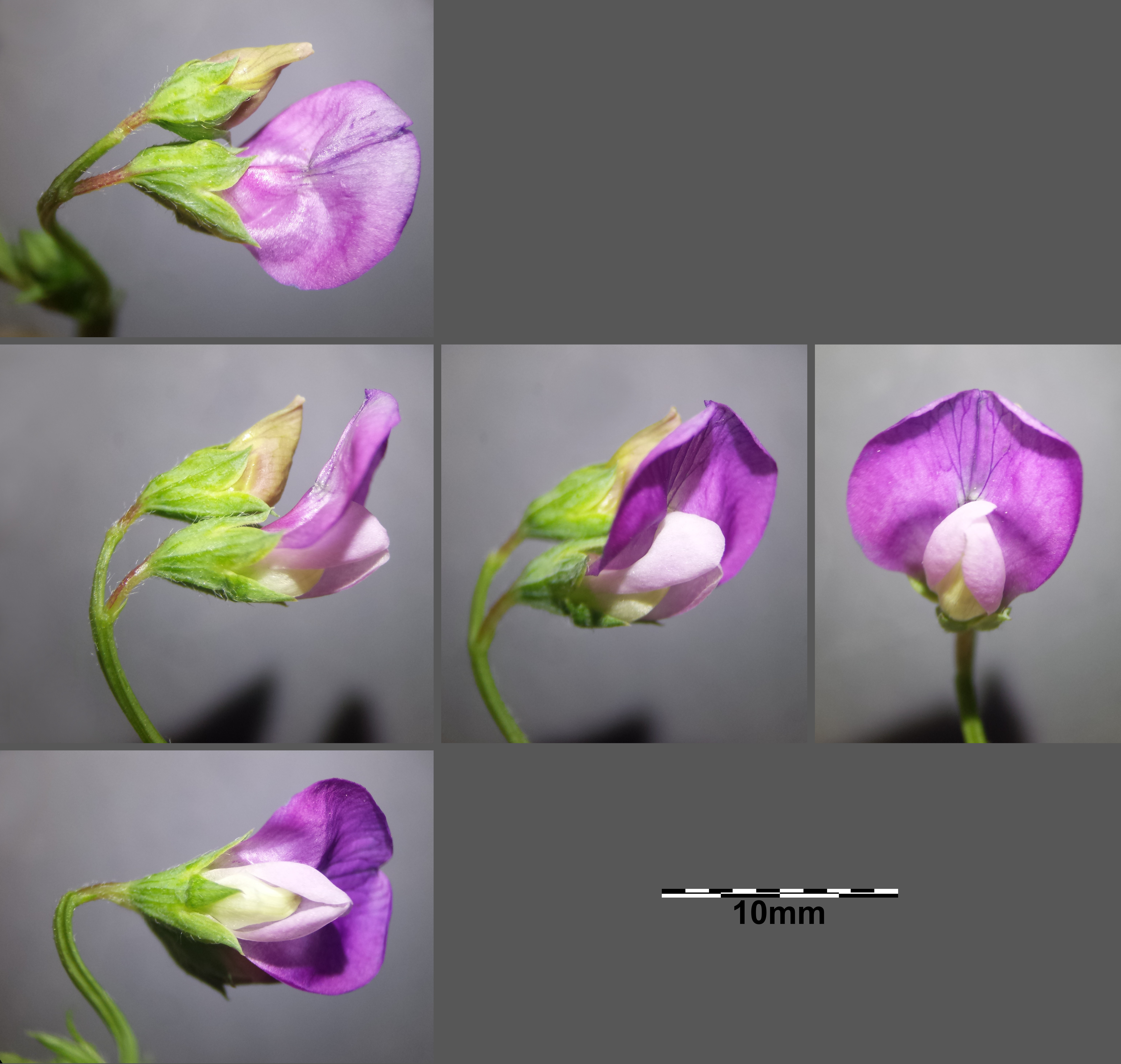 Flowers Taxonym: Lathyrus hirsutus ss Fischer et al. EfÖLS 2008 ISBN 978-3-85474-187-9 Location: Burgstall to the North of Großmugl, district Korneuburg, Lower Austria - 330 m a.s.l. Habitat: wayside